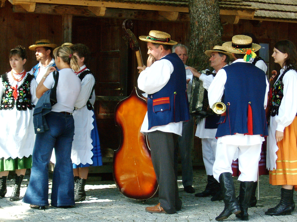 Bukowianie are a local Polish Folk music groups from Bukowsko. The band before the gig, Sanok, Poland